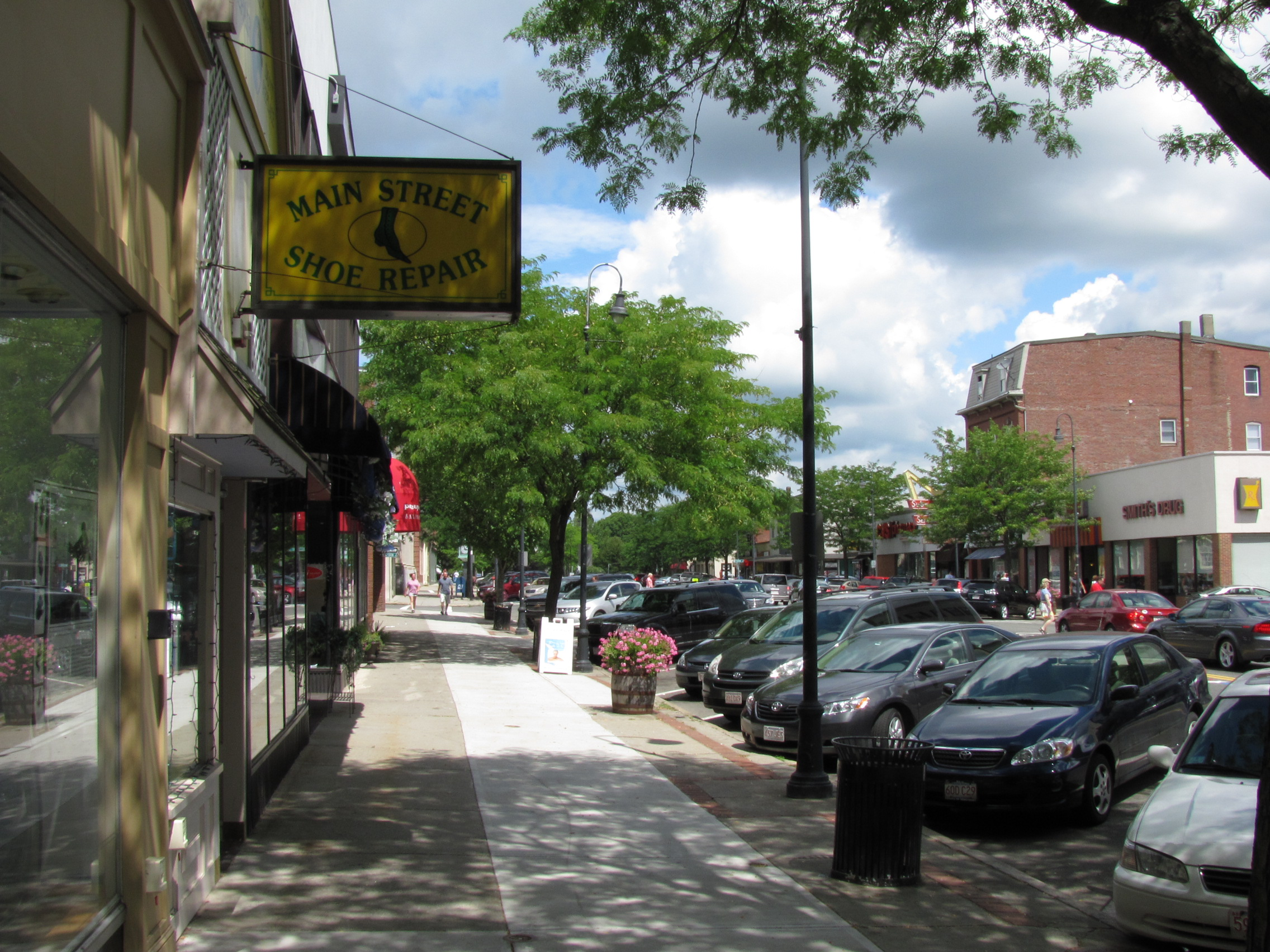 Main Street, Wakefield Massachusetts